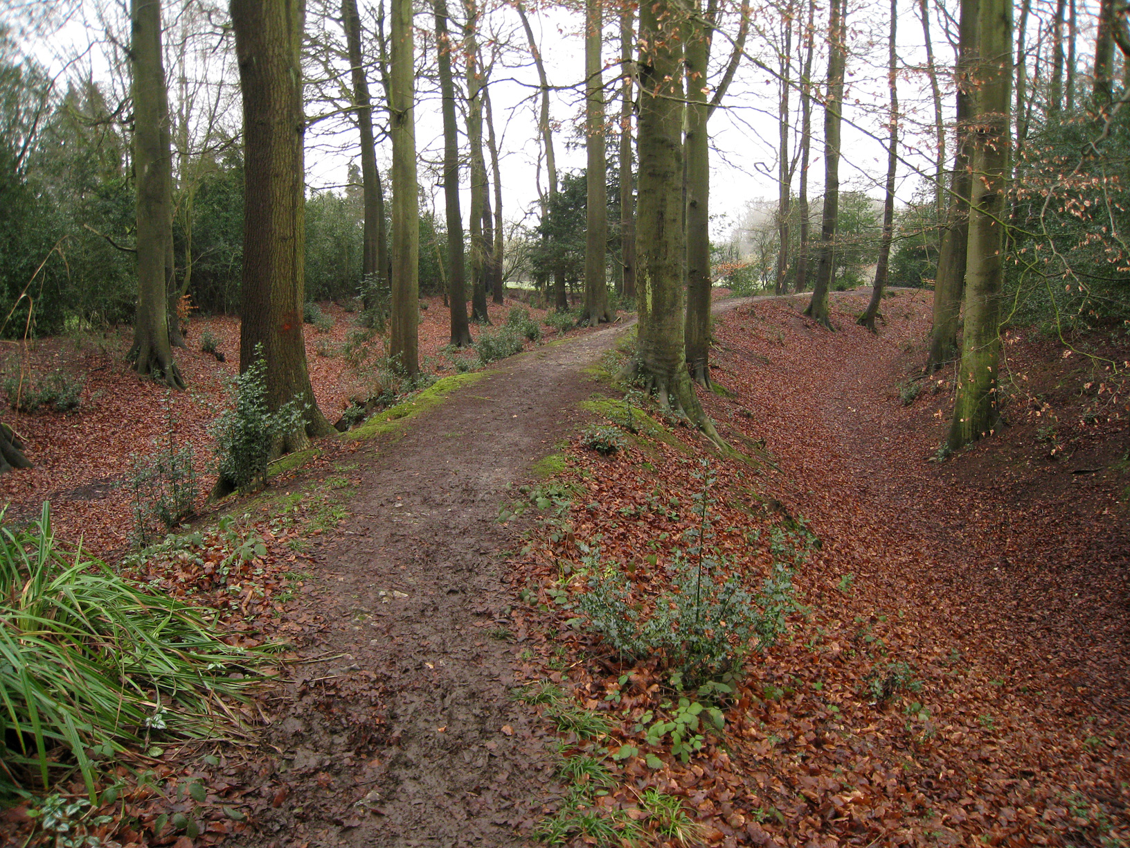 Vallum at the western edge of Cholesbury Camp